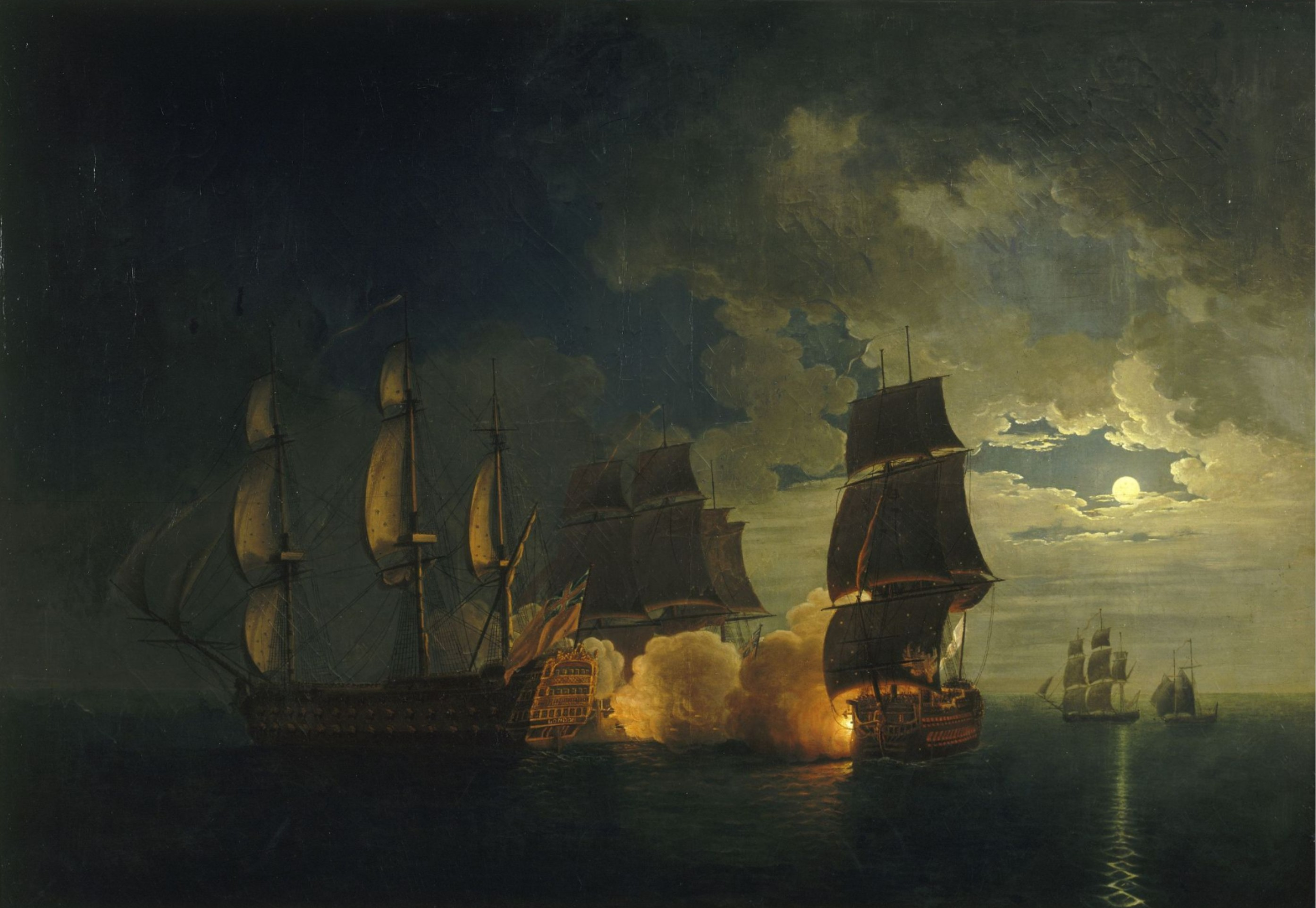 Action of 18 October 1782 between the 74-gun Scipion and the 90-gun HMS London. Oil on canvas, 18th century On display at Toulon naval museum. Access number 3 OA 54.